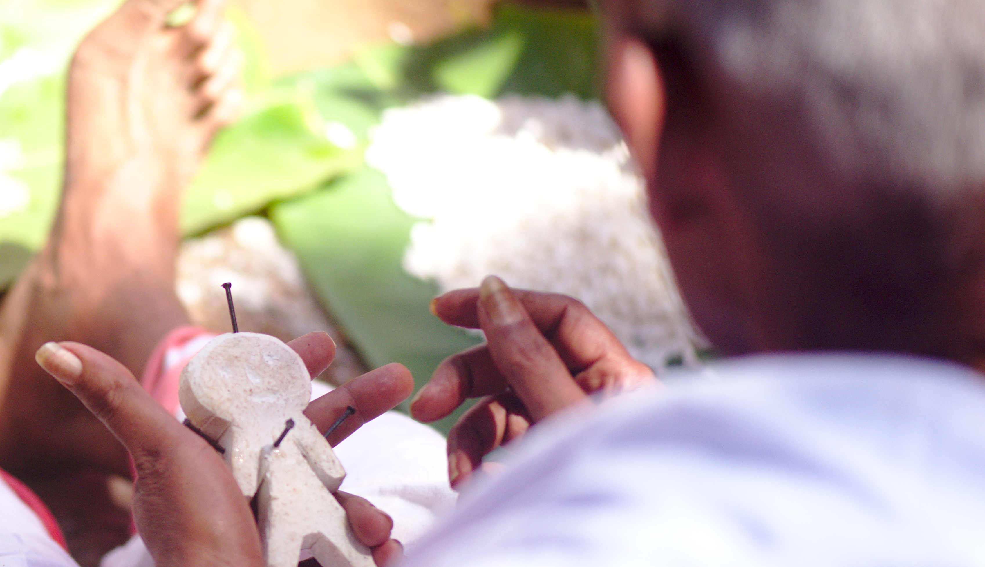 Woodoo doll being used for Abhicharam during Ucheli theyyam